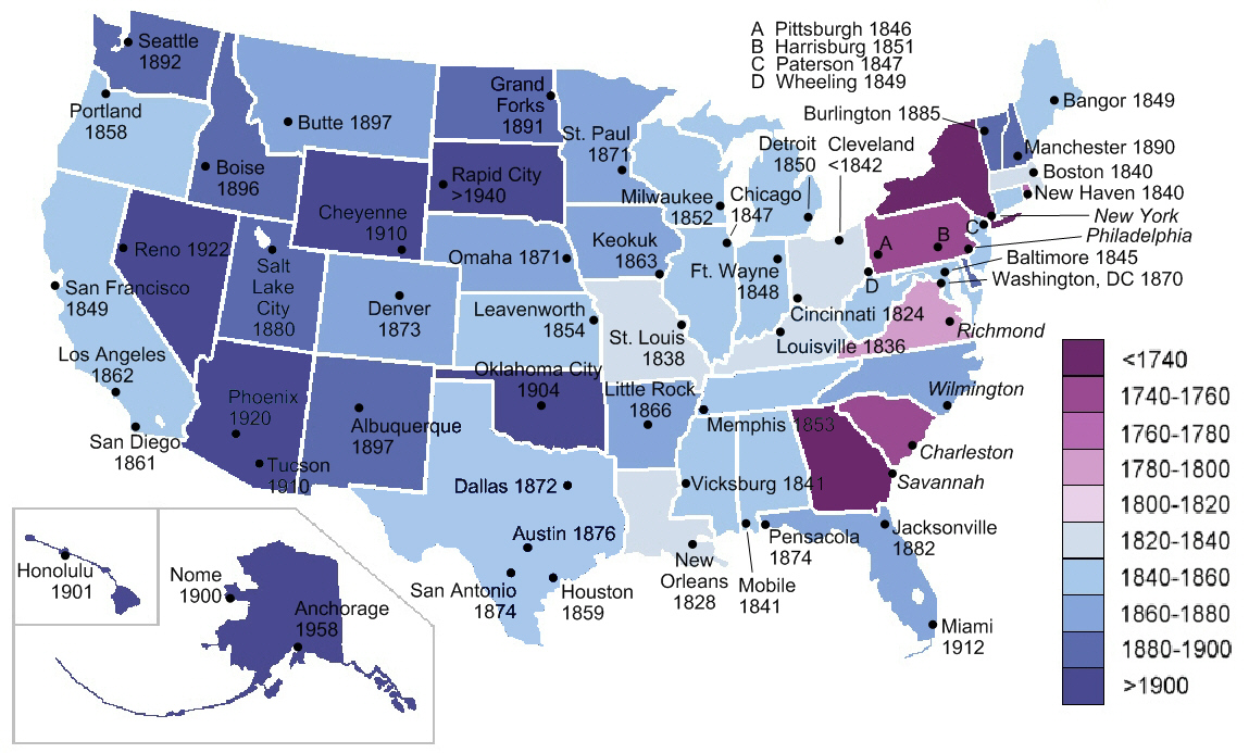 Map of important Jewish Congregations in the U. S. (established after 1776).